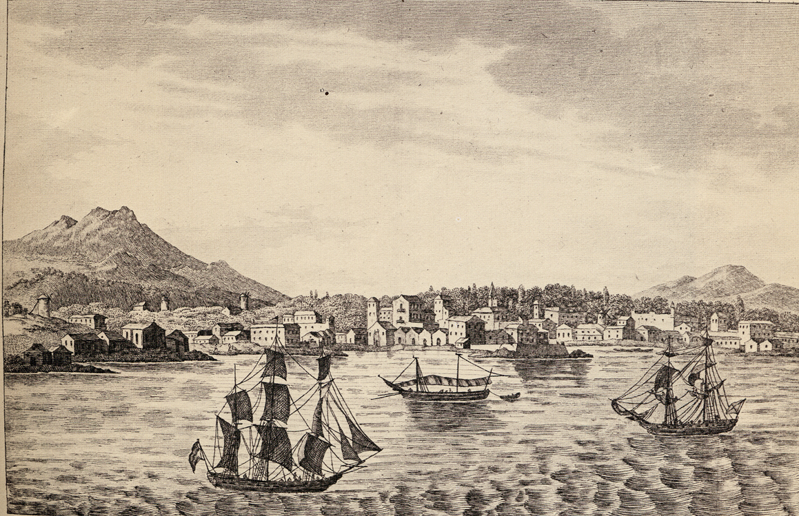 Preveza in a 19th century gravure